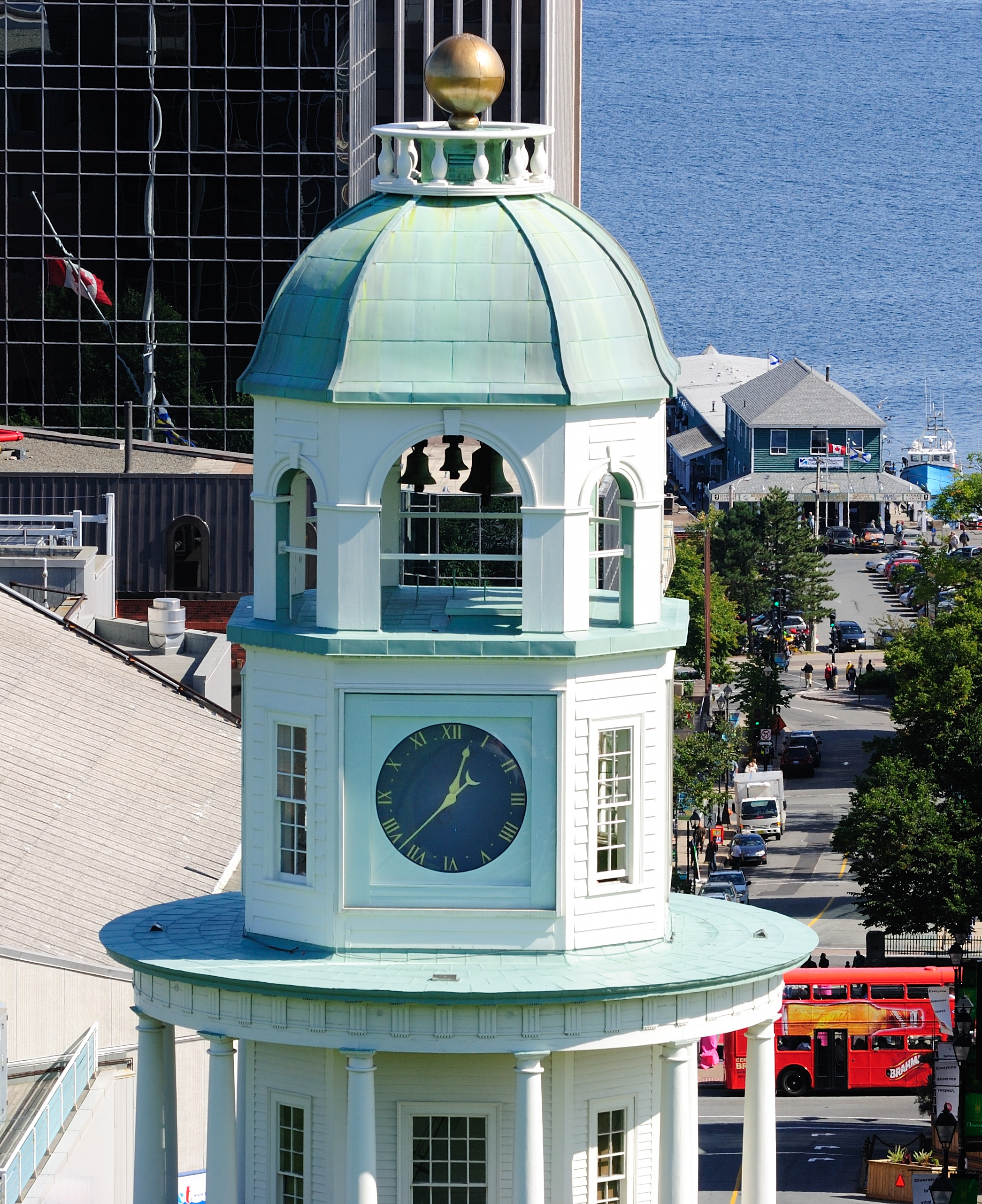 Halifax Town Clock